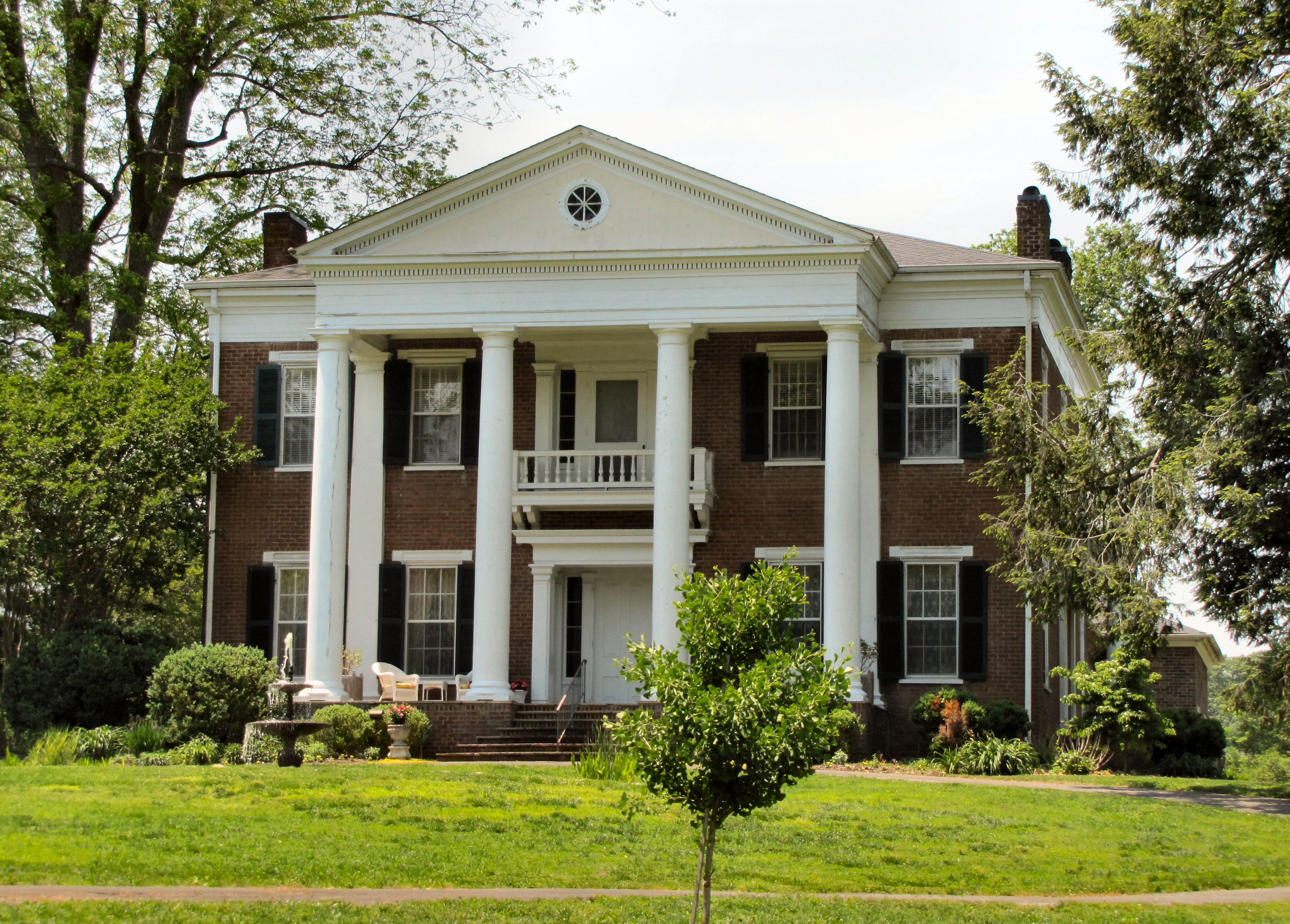 The Alexander Keith House in Athens, Tennessee, United States. Built in 1858, this house is now home to Woodlawn Bed-and-Breakfast, and is listed on the National Register of Historic Places.